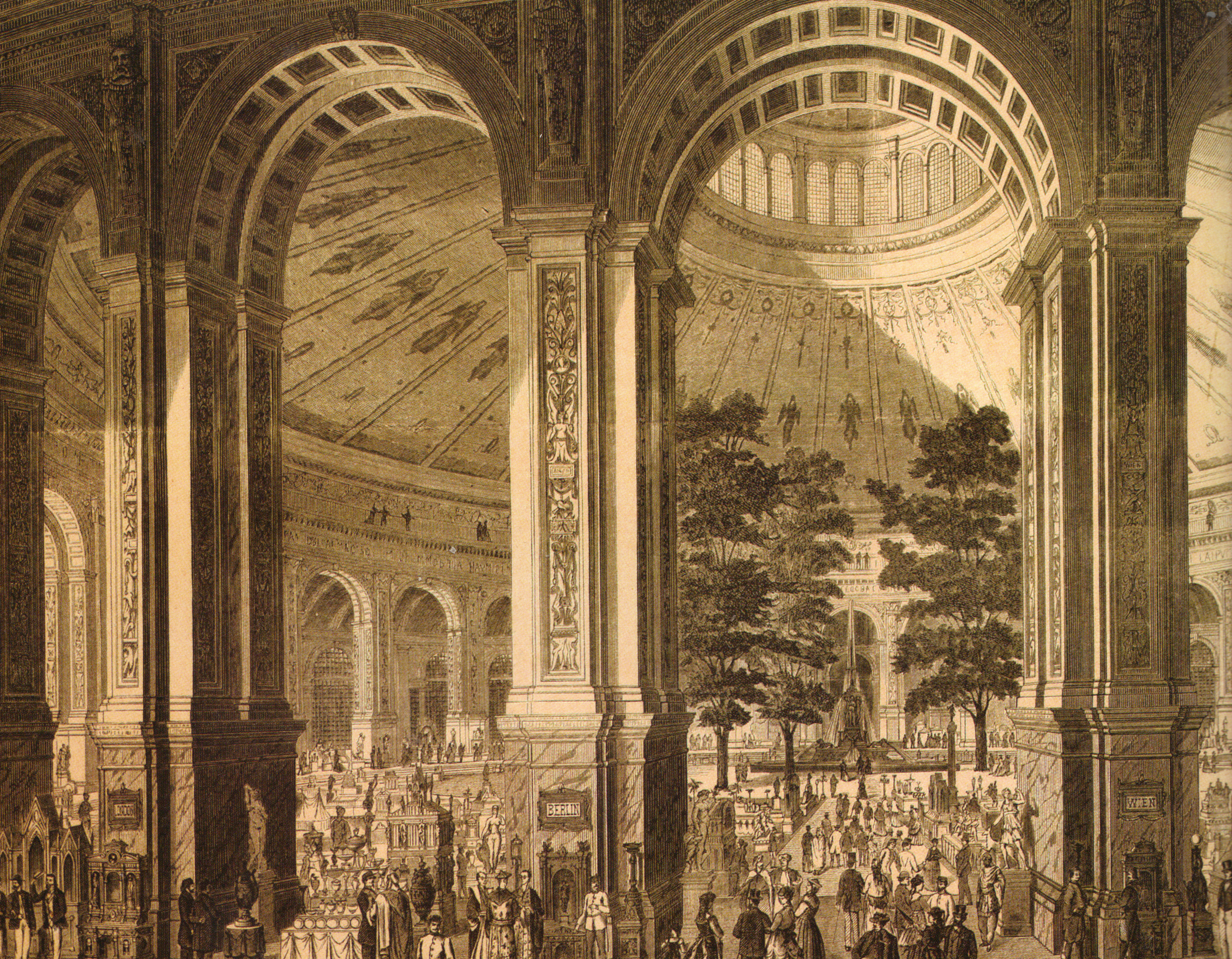 Inside of Vienna's Exhibition building "Rotunde" (1873 - 1937)